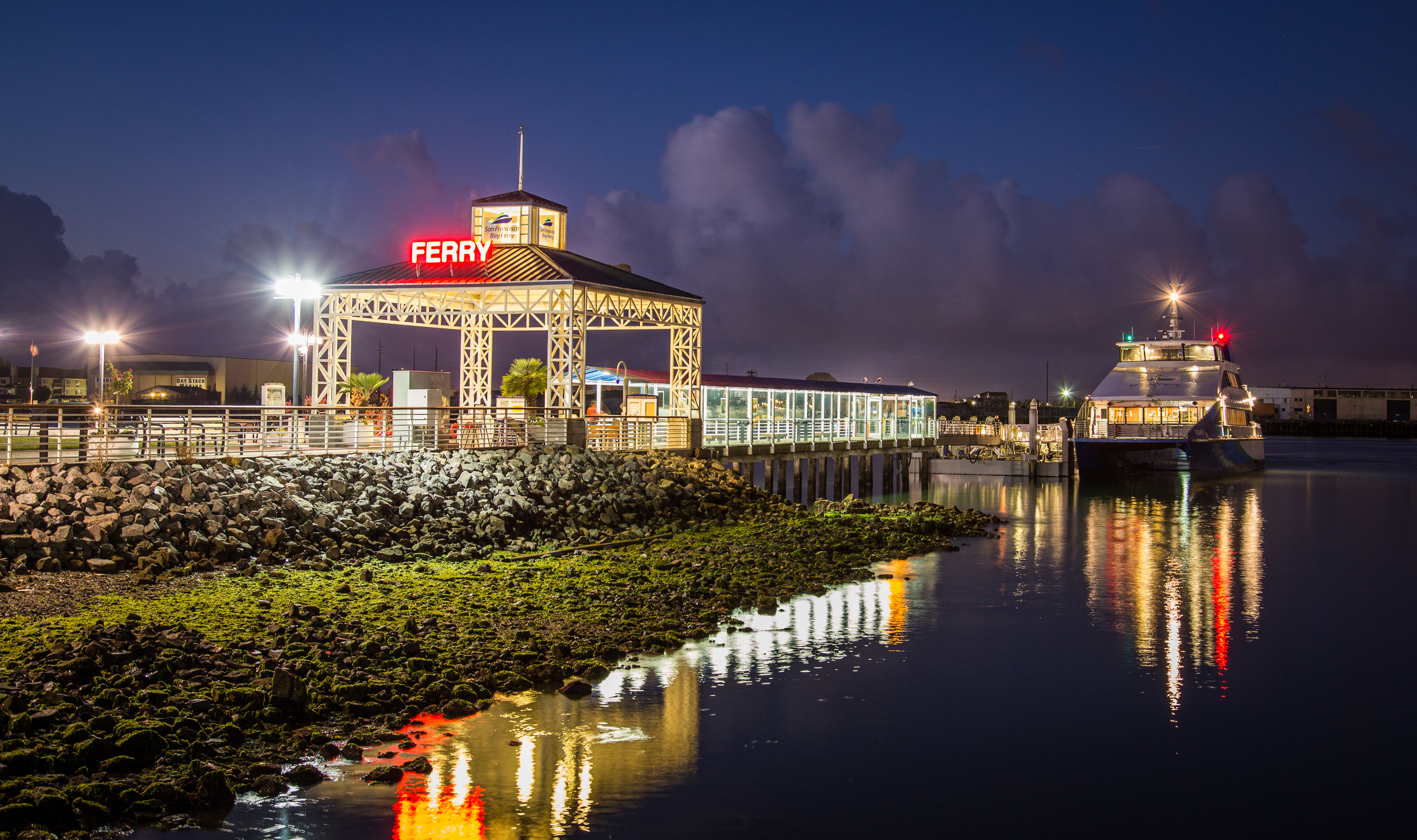 A ferry boat loads passengers for San Francisco at the Oakland Ferry Terminal at Jack London Square — along the San Francisco Bay Trail in Oakland, California. Located on the Oakland Estuary, near the Port of Oakland.